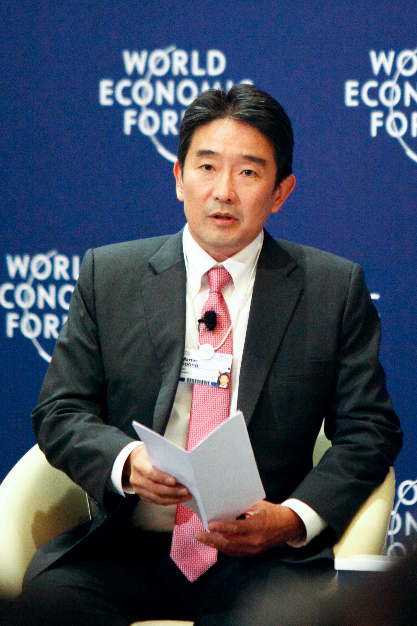 JAKARTA/INDONESIA, 13JUN11 - Martin Soong, Anchor, CNBC Asia, Singapore, captured during "Redrawing the "Greenprint" of Asia's Energy Architecture" at the World Economic Forum on East Asia in Jakarta, Indonesia, June 13, 2011. Copyright World Economic Forum ( by Sikarin Thanachaiary